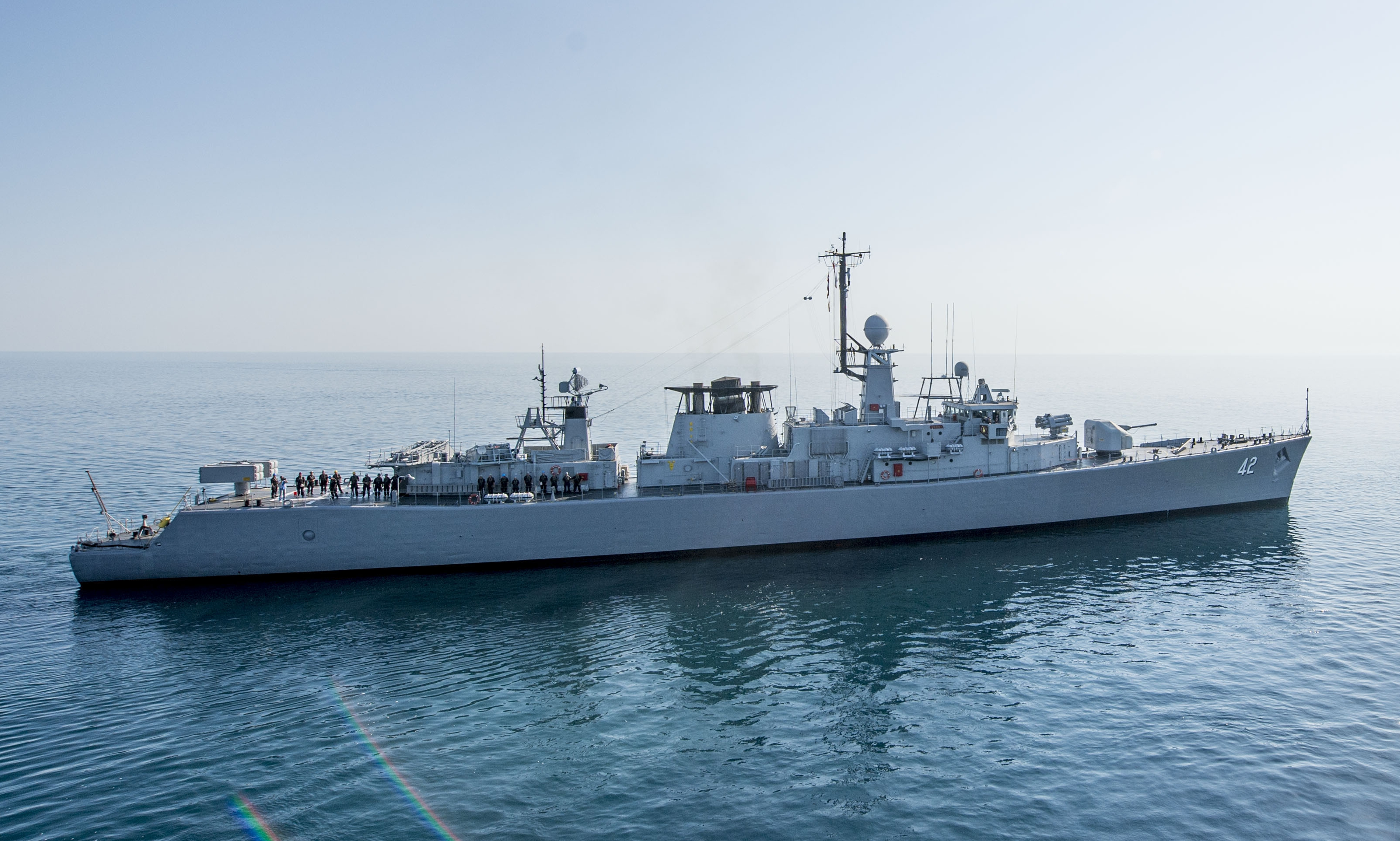 The Bulgarian Navy frigate Verni (42) approaches the U.S. Navy guided-missile destroyer USS Porter (DDG-78), not visible, during a towing simulation in the Black Sea as part of Exercise Breeze 2015. Verni is the former Belgian frigate Wielingen (F910) that was sold to Bulgaria in 2009.